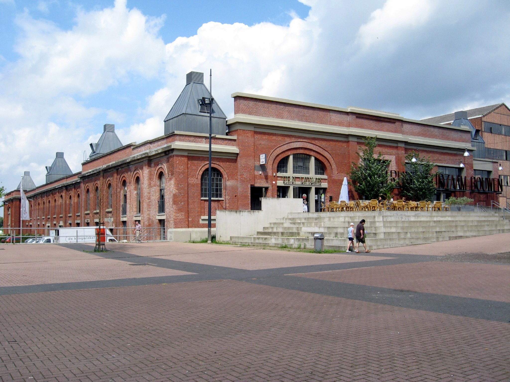 Former wash house of the mine Zolder, Limburg, Belgium, nowadays the "Centrum Duurzaam Bouwen"